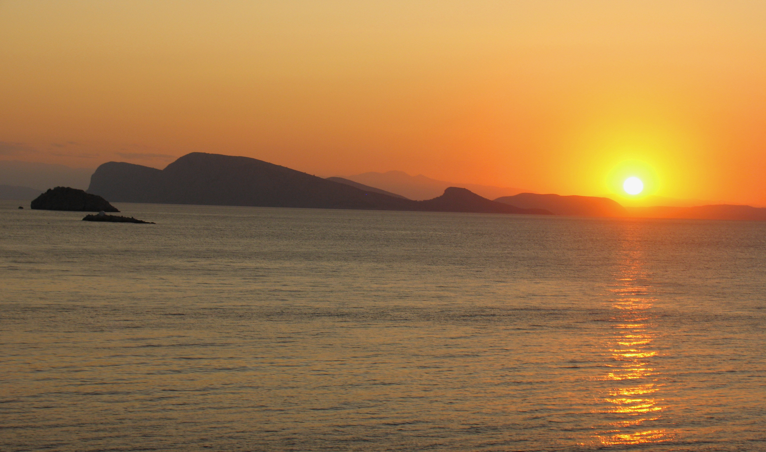 Twilight on Hydra island, one of the Saronic Islands of Greece, located in the Aegean Sea.